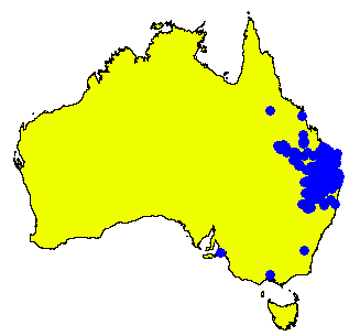 Angophora leiocarpa occurrence data downloaded from Australasian Virtual Herbarium using on 21 March 2019